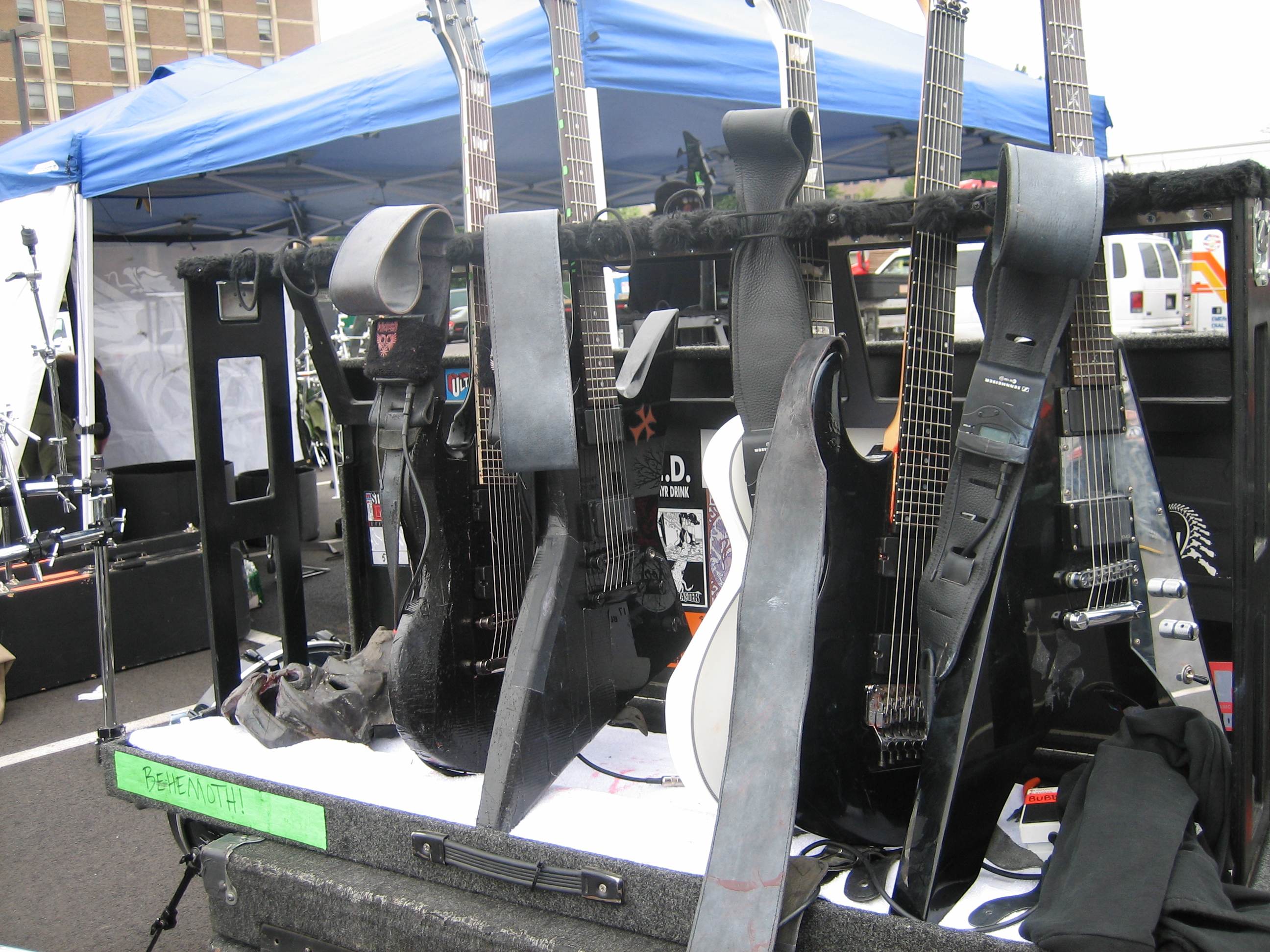 Behemoth band GuitarsBehemoth's axes